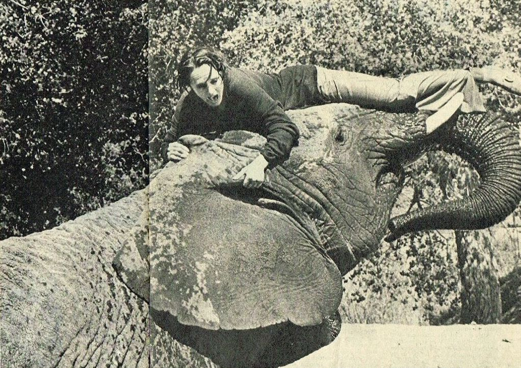 A French press clipping of Tippi Hedren during the filming of Roar in 1977.